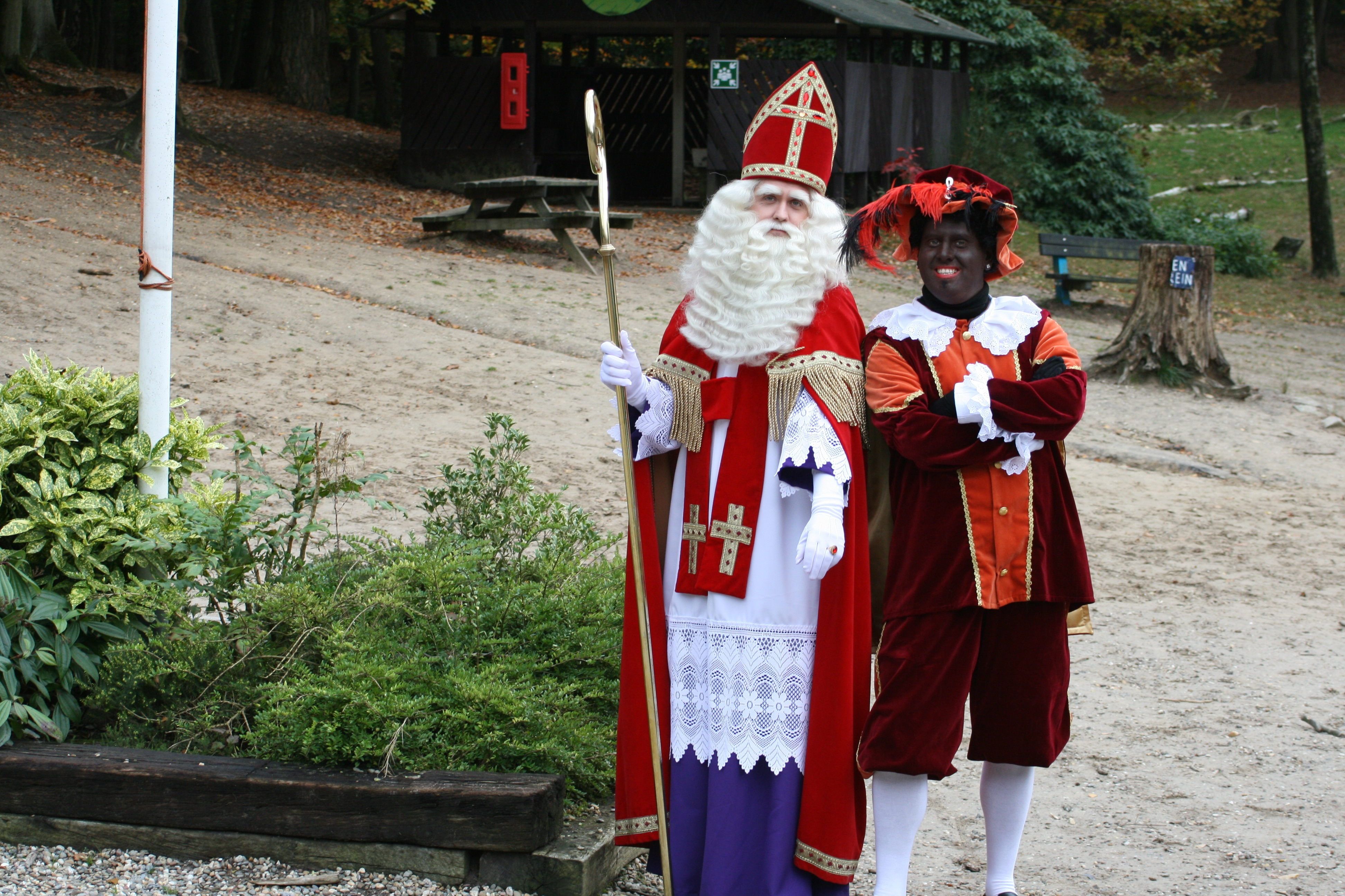 Sinterklaas en zwartepiet